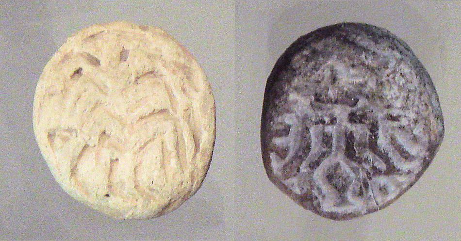 Stamp seal with Master of Animals motif, Tello, ancient Girsu, End of Ubaid period, Louvre Museum AO14165